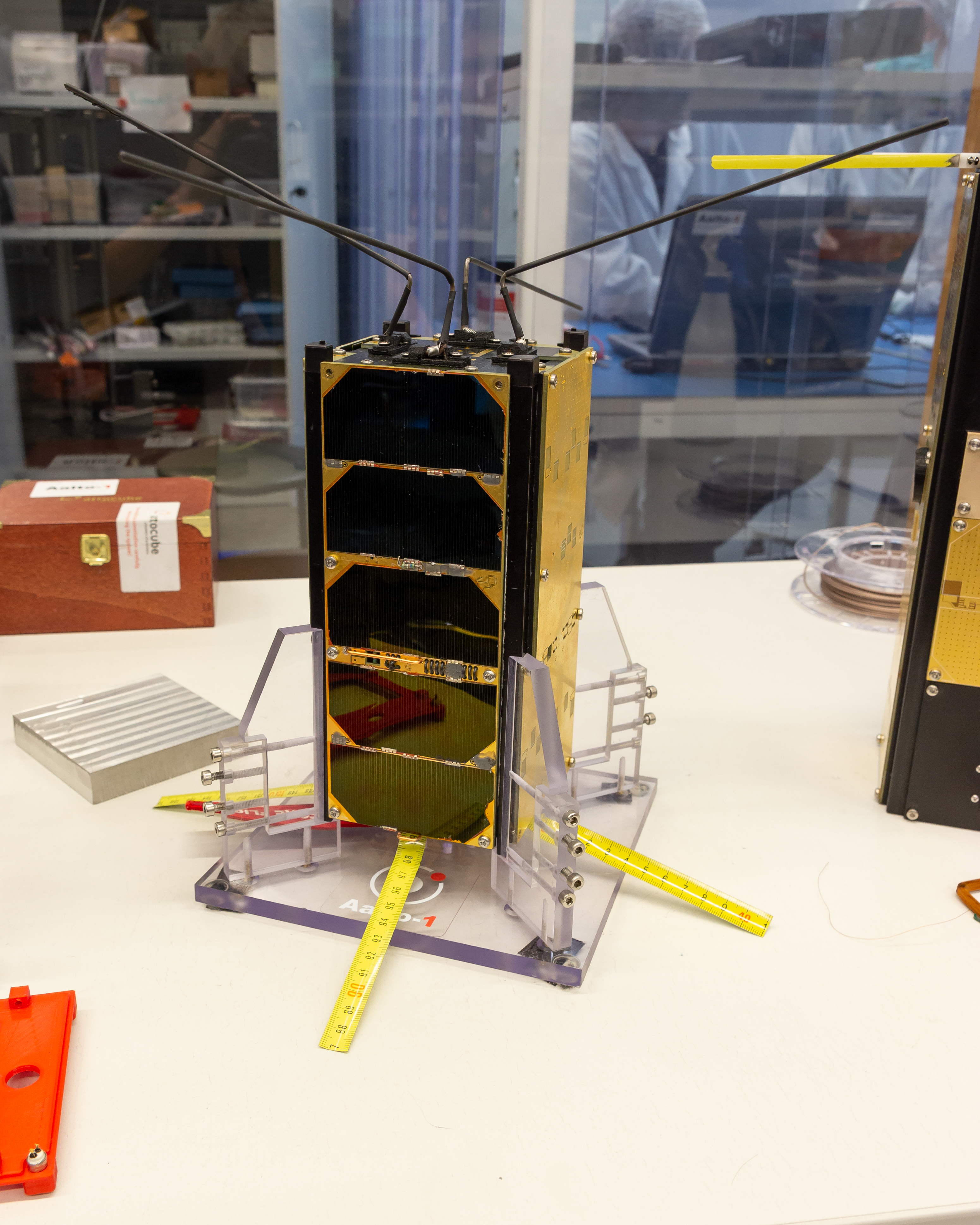 Aalto-2's engineering model at the Aalto Satellite lab in Otaniemi, Finland.